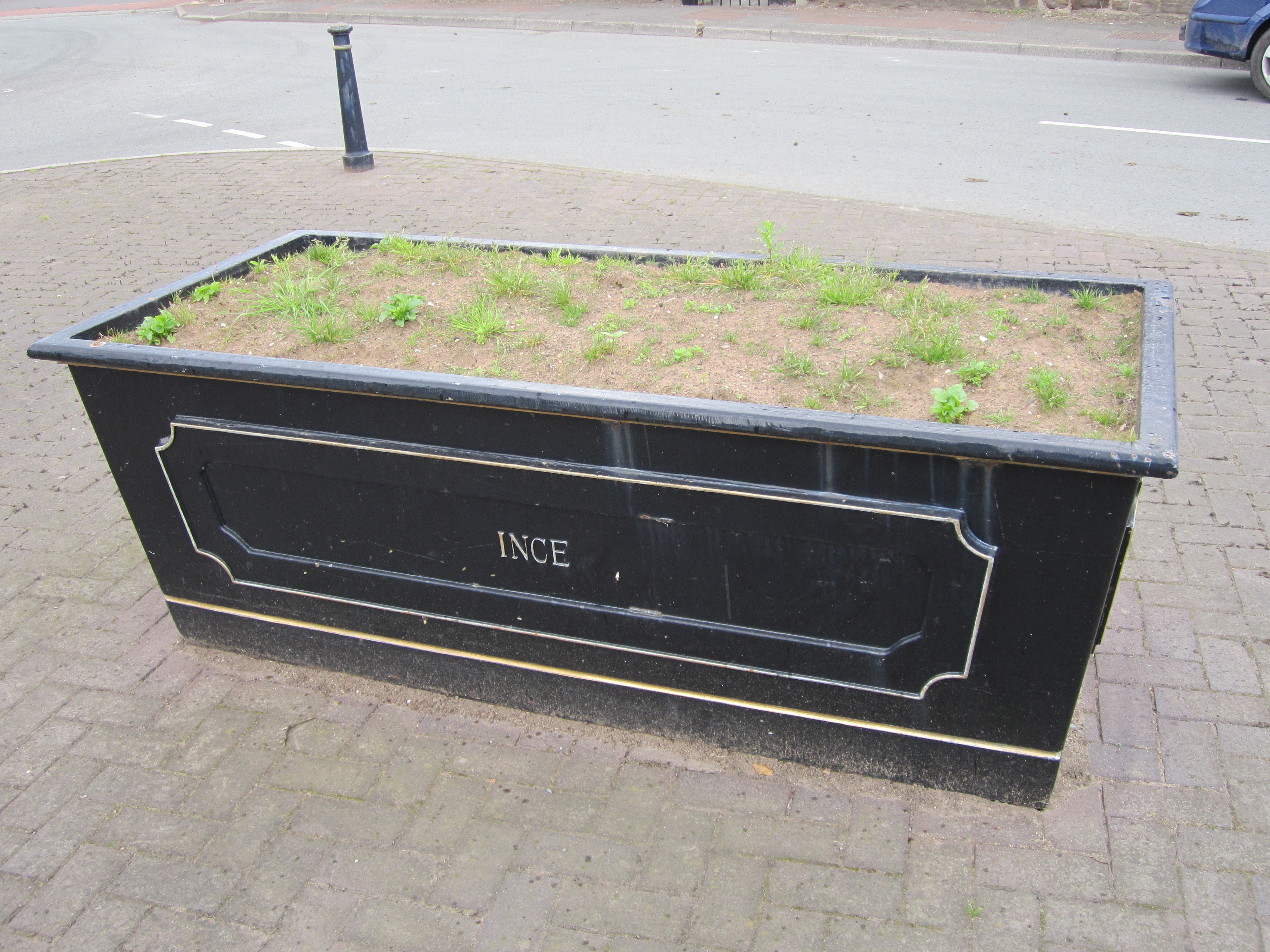 Planter at The Square, Ince, Cheshire, England.